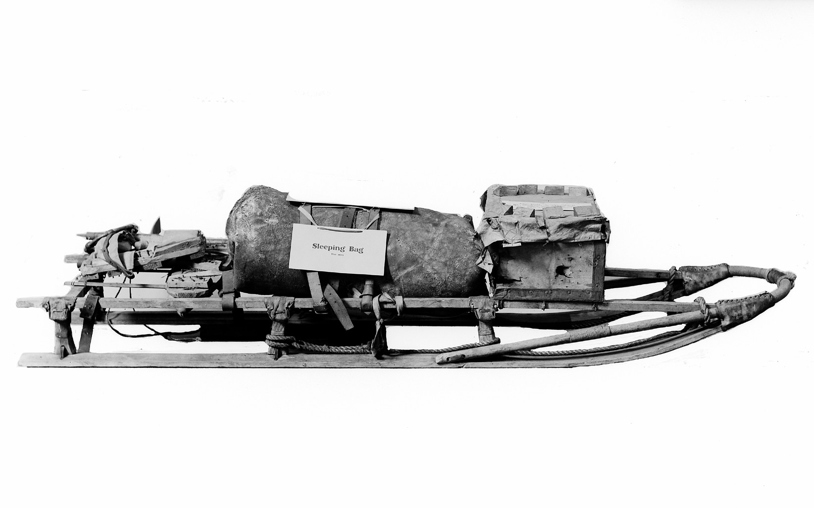 Dr. Mawson's sledge, right side, background out. Wellcome Images Keywords: Douglas Mawson; explorers